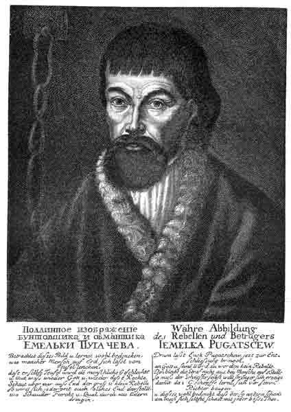 gravure: Emelian Pugatscew